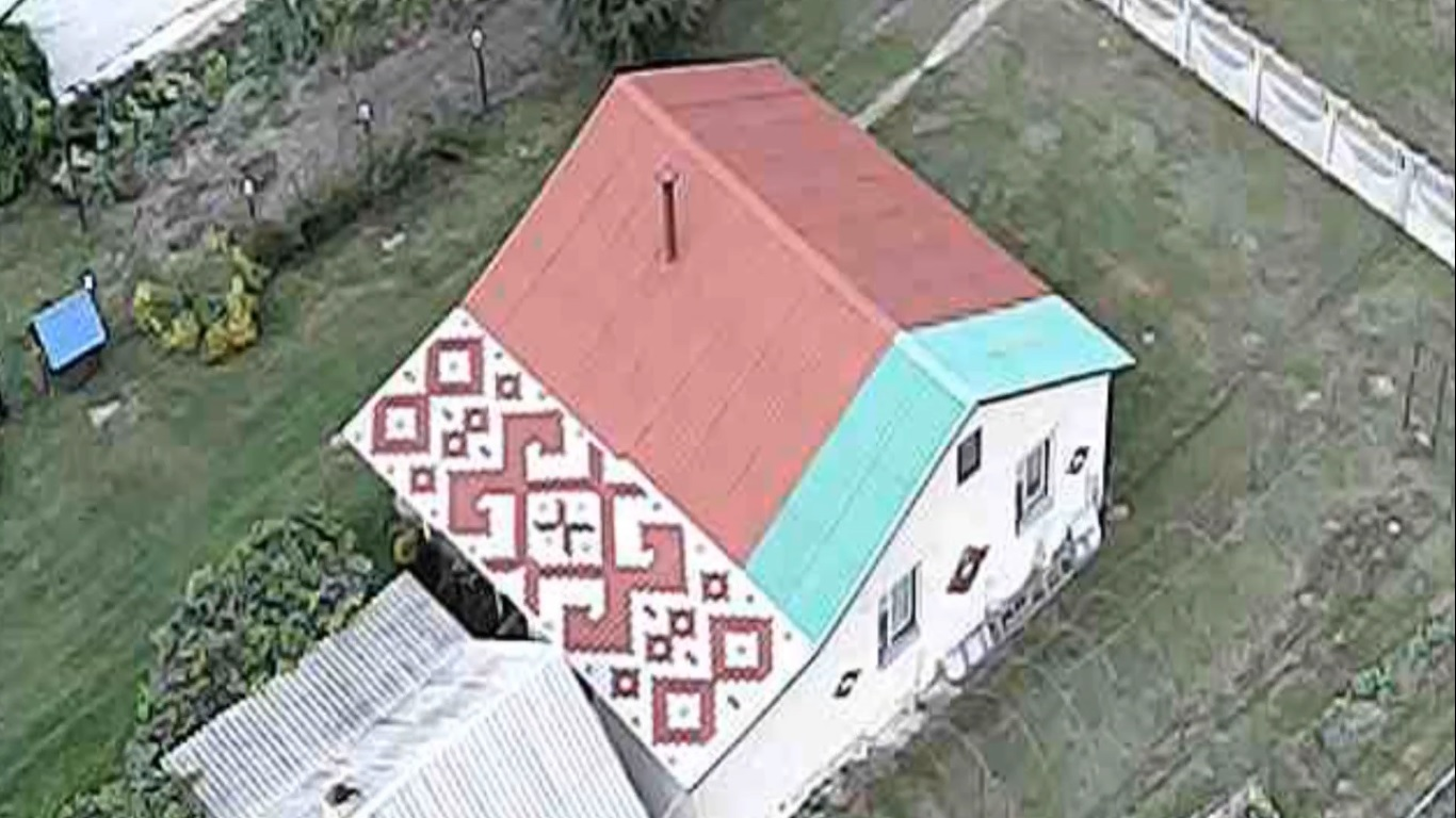 This photo has been taken in the country: Belarus